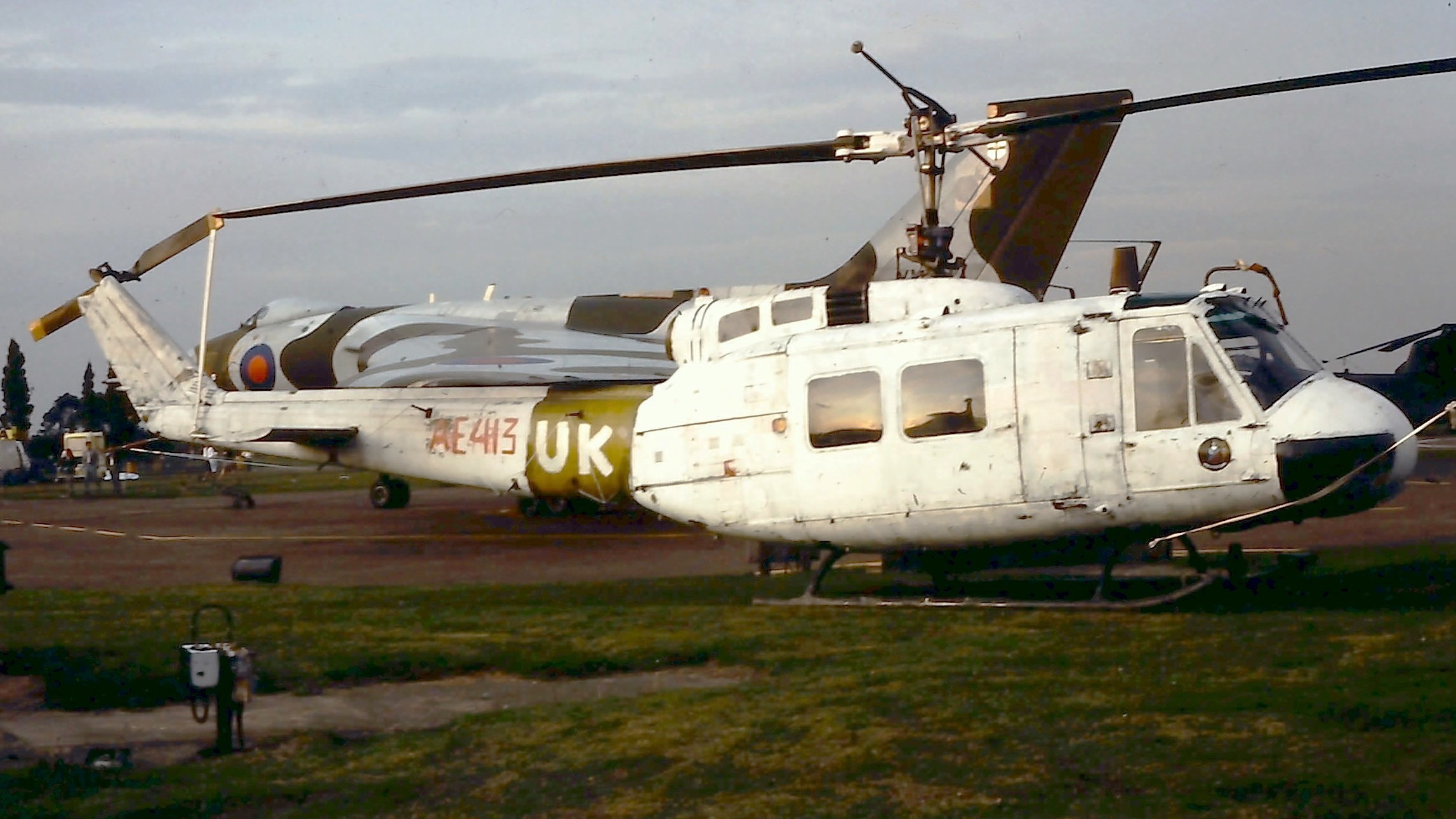 Former Argentine Army Bell UH-1H Iroquois AE-413 captured and used by British forces during the Falklands War of 1982. Returned to the United Kingdom and image taken when on display at Royal Air Force Finningley open day. Argentine national markings have been removed and a crude "UK" painted on for identification. The helicopter would later be restored to flying condition registred as G-HUEY